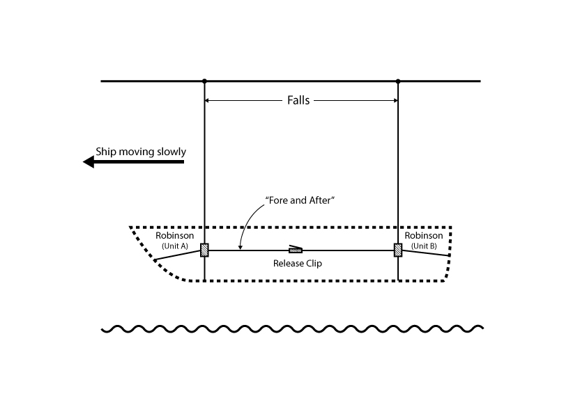 The boat is lowered from the ship, suspended by the two Falls, until the boat is close to the water.